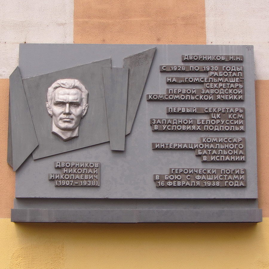 Memorial plaque in memory of Mikalai Dvornikau on the walls of the plant Gomselmash (Gomel, Belarus). Installed in 1970.